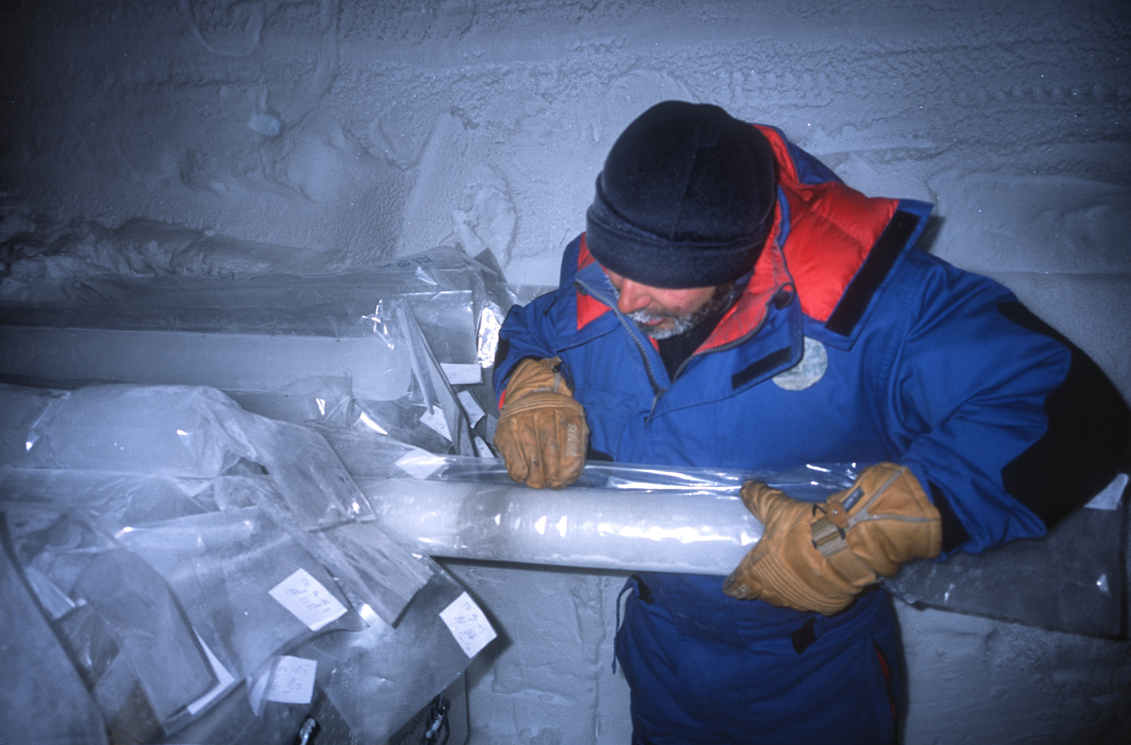 Ice core extracted at Talos Dome showing an ash layer corresponding to the Toba supervolcano eruption in Indonesia about 75kY ago (see Toba_catastrophe_theory)